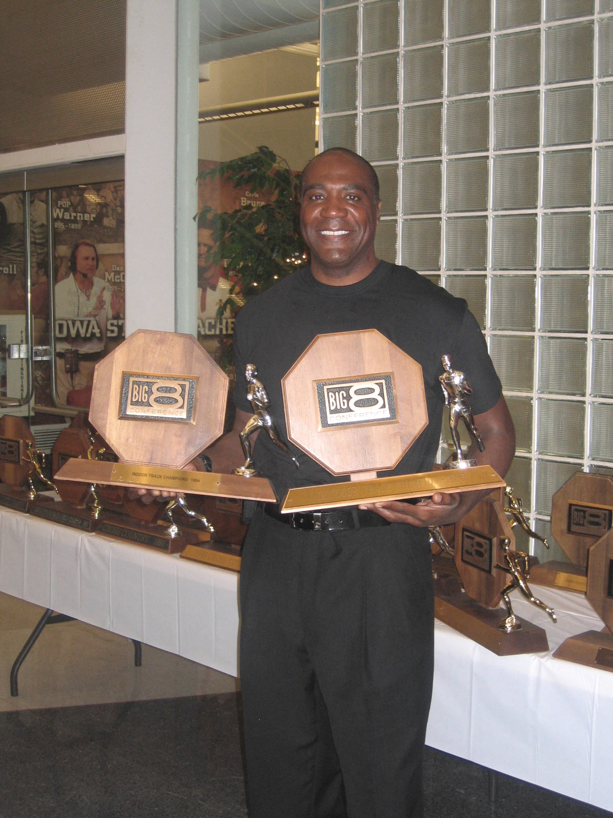 Danny Harris holds two of the four Big 8 Conference team titles won during his time at Iowa State.